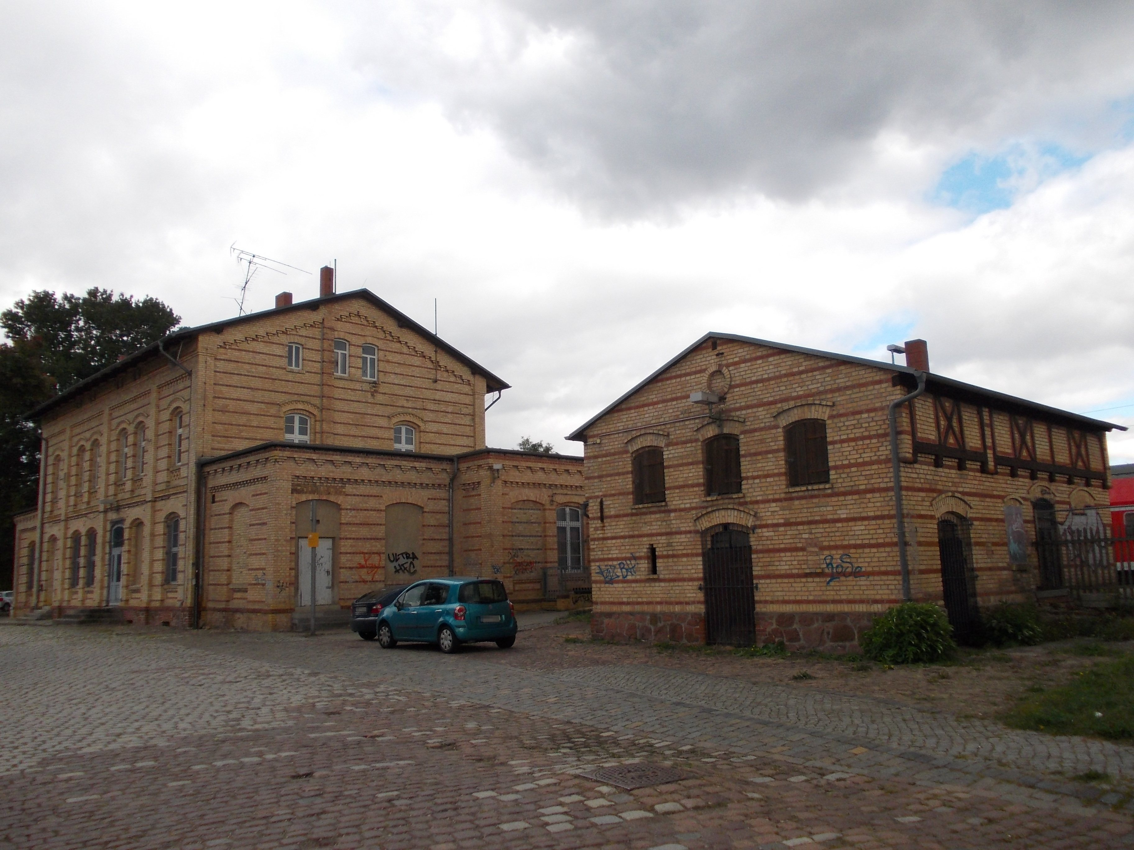 Halle-Trotha train station (Halle/Saale, Saxony-Anhalt)